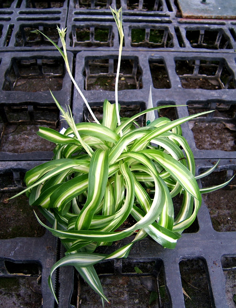 Spider Plant